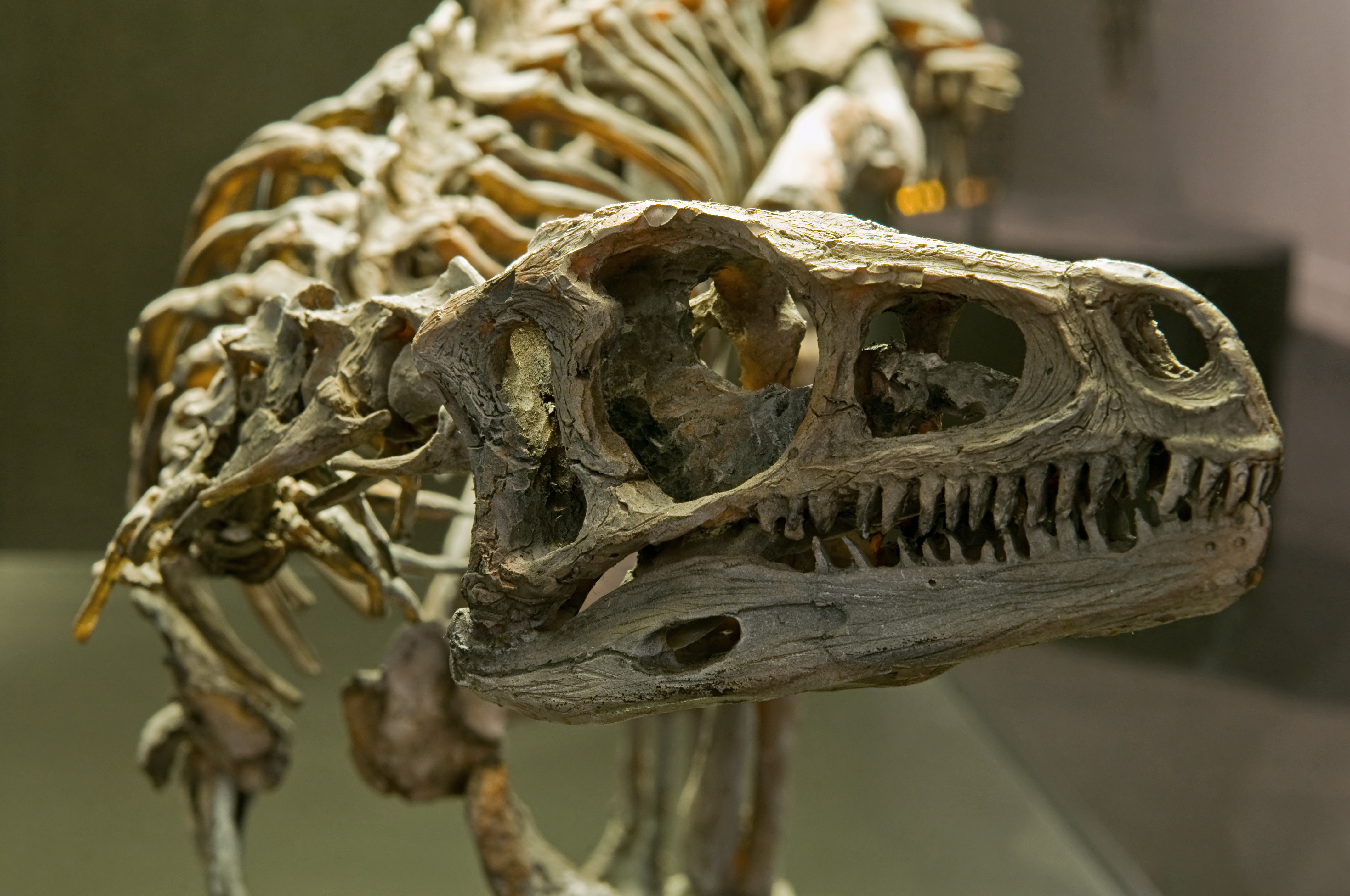 Skeleton of a Eoraptor lunensis